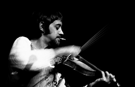 Convocation Hall, Toronto, 197? Photo by Jean-Luc Ourlin